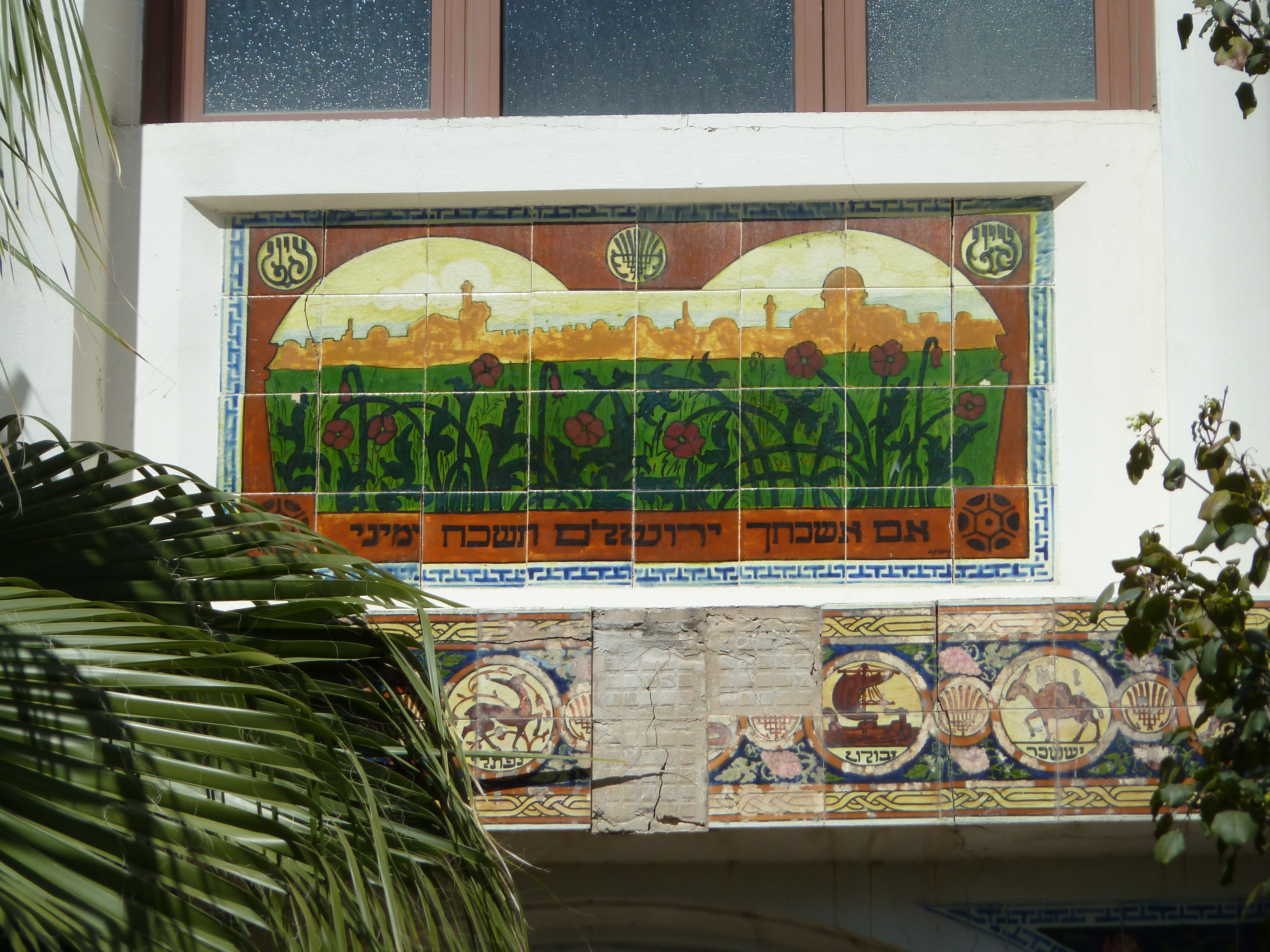 Ehad Haam School, Ehad Haam street, Tel Aviv